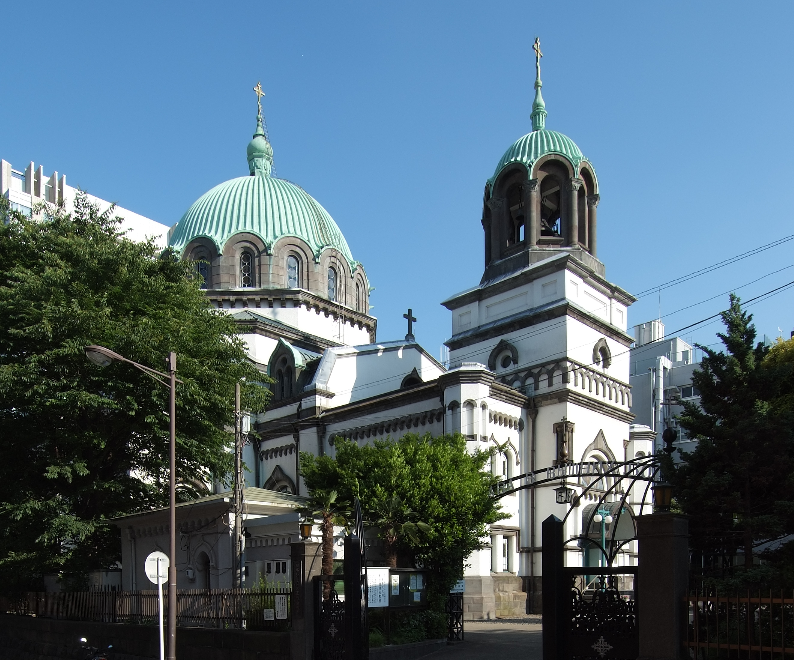 Tokyo Resurrection Cathedral, Chiyoda-ku Tokyo japan, designed by Michael A. Shchurupov & Josiah Conder in 1891.